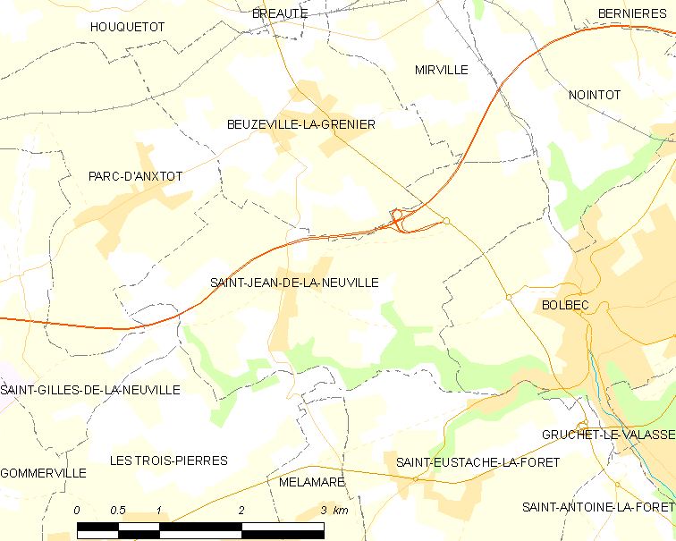 Map of French municipality Saint-Jean-de-la-Neuville